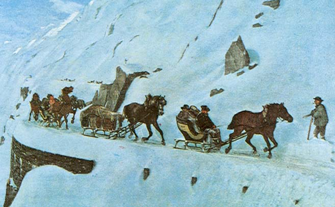 1873, Gotthardpost im Winter, Oelbild von Jean Jacot-Guillarmod